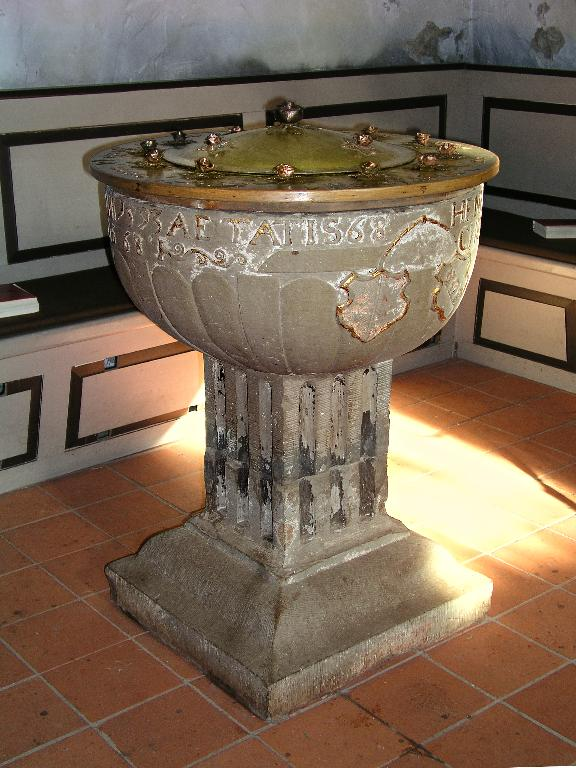 Wrist, Schleswig-Holstein, Germany: church of Stellau, baptismal font, photo 2007 nte